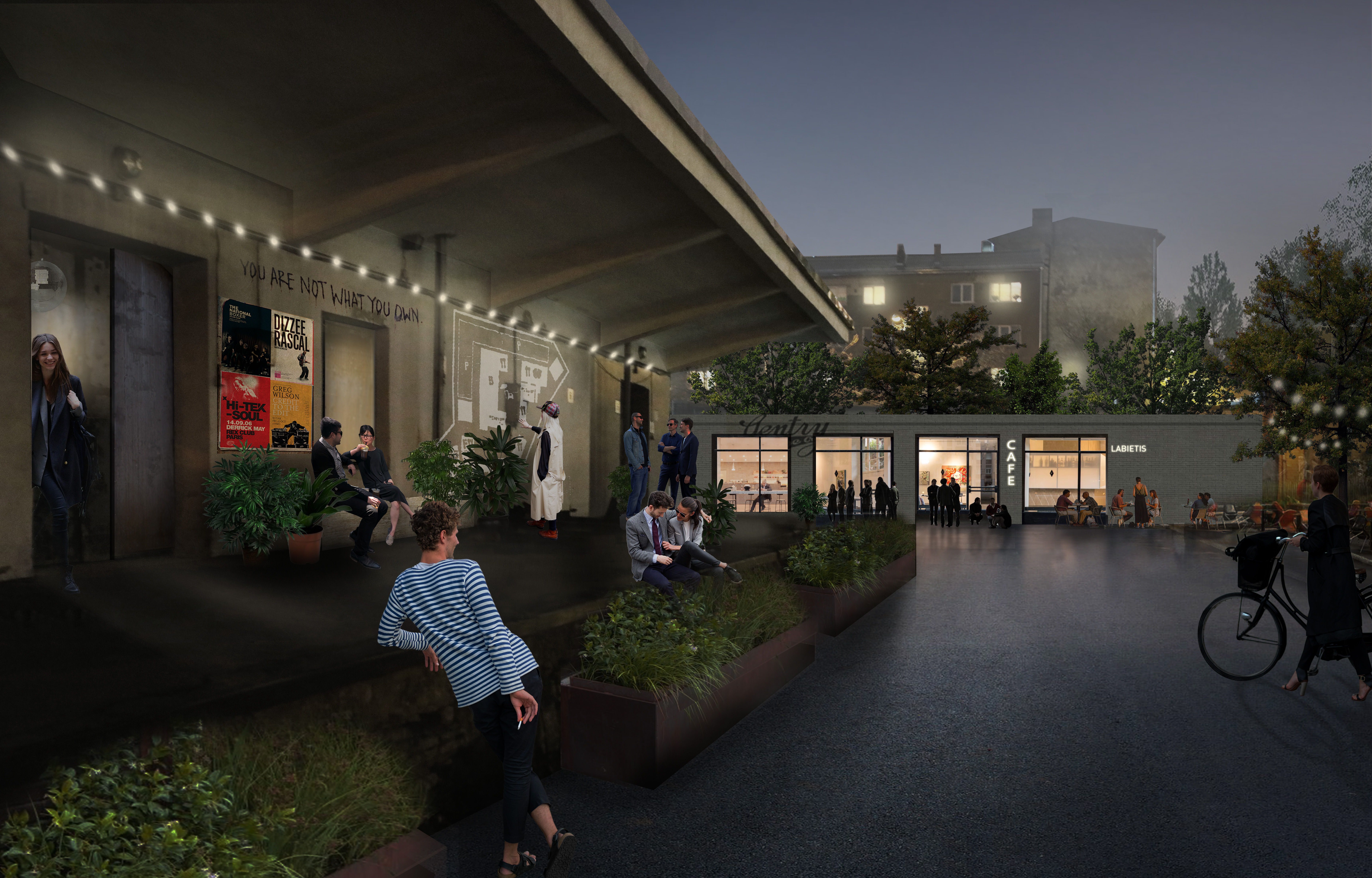 Sporta 2 no Hanzas ielas